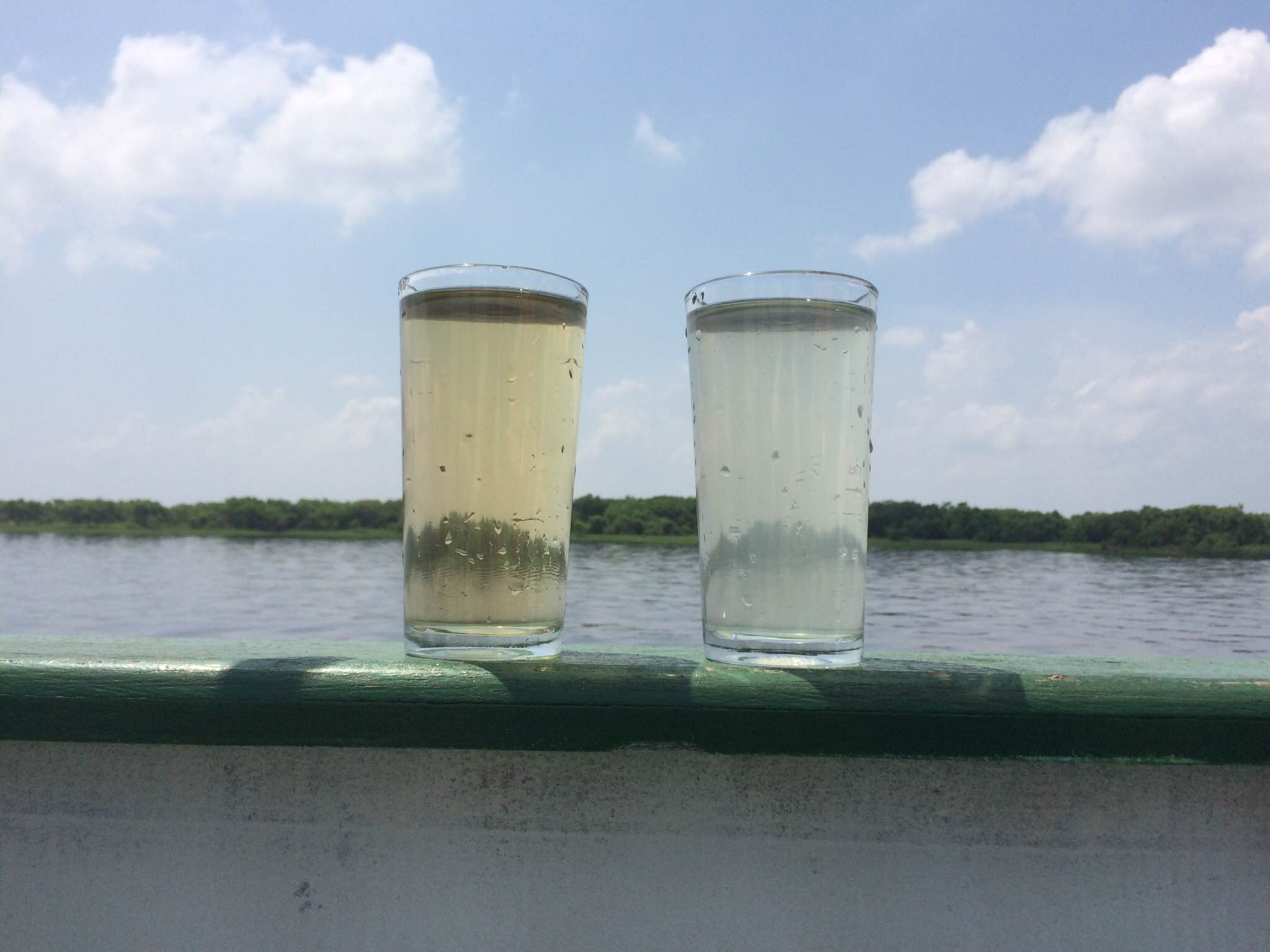 Colors of Rio Solimoes and Rio Negro (water in drinking glass)